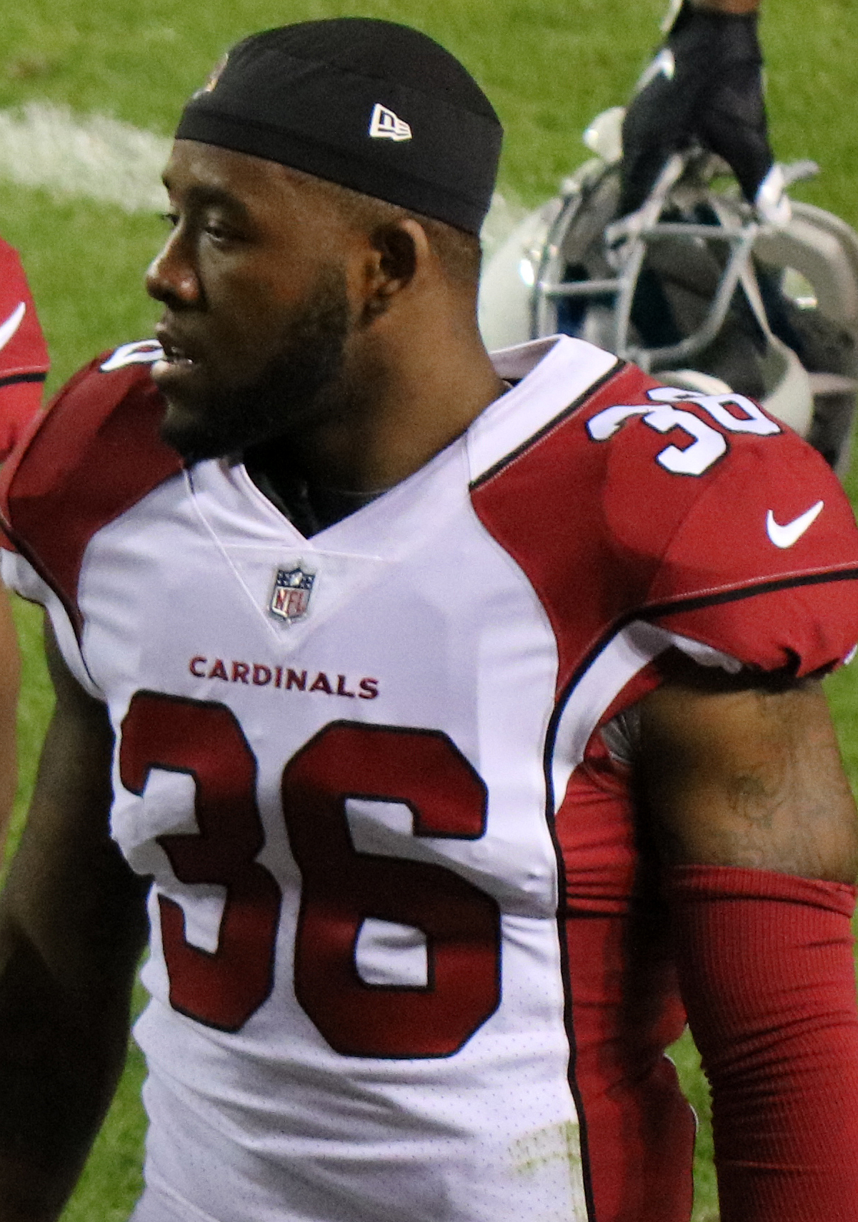 Budda Baker, a player on the National Football League.